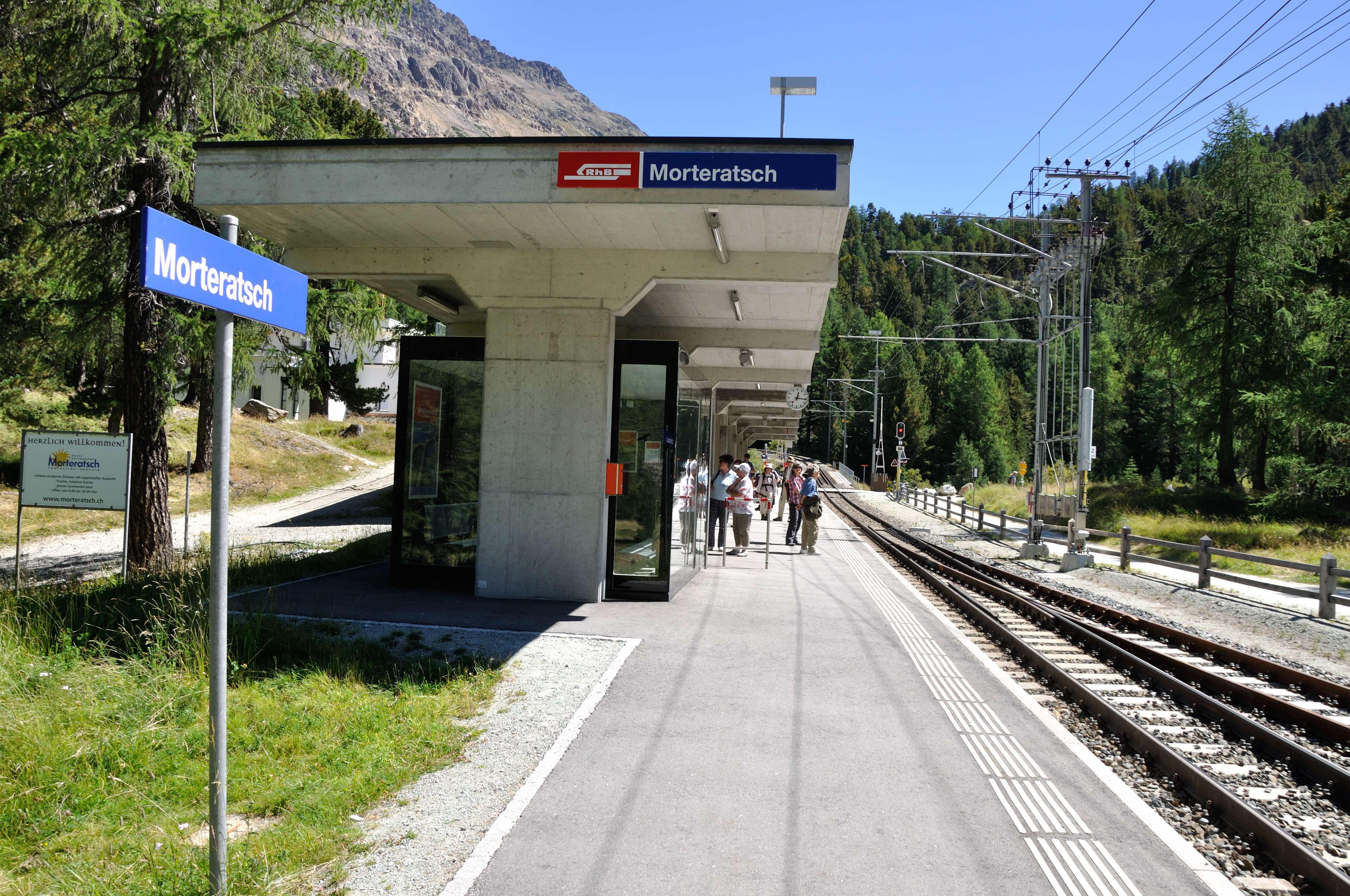 Switzerland, Graubünden, impressions on the Bernina line of the Rhaetian Railways between Samedan and Bernina Ospizio